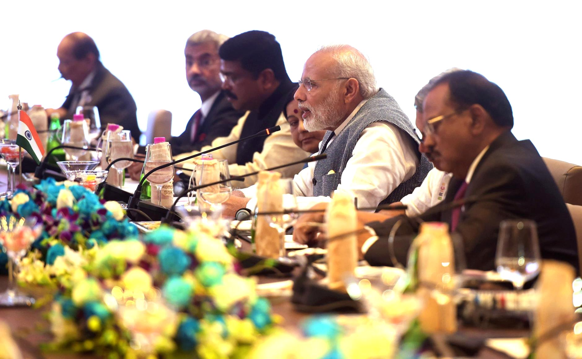 Russian-Indian talks. Photo by Dmitry Azarov